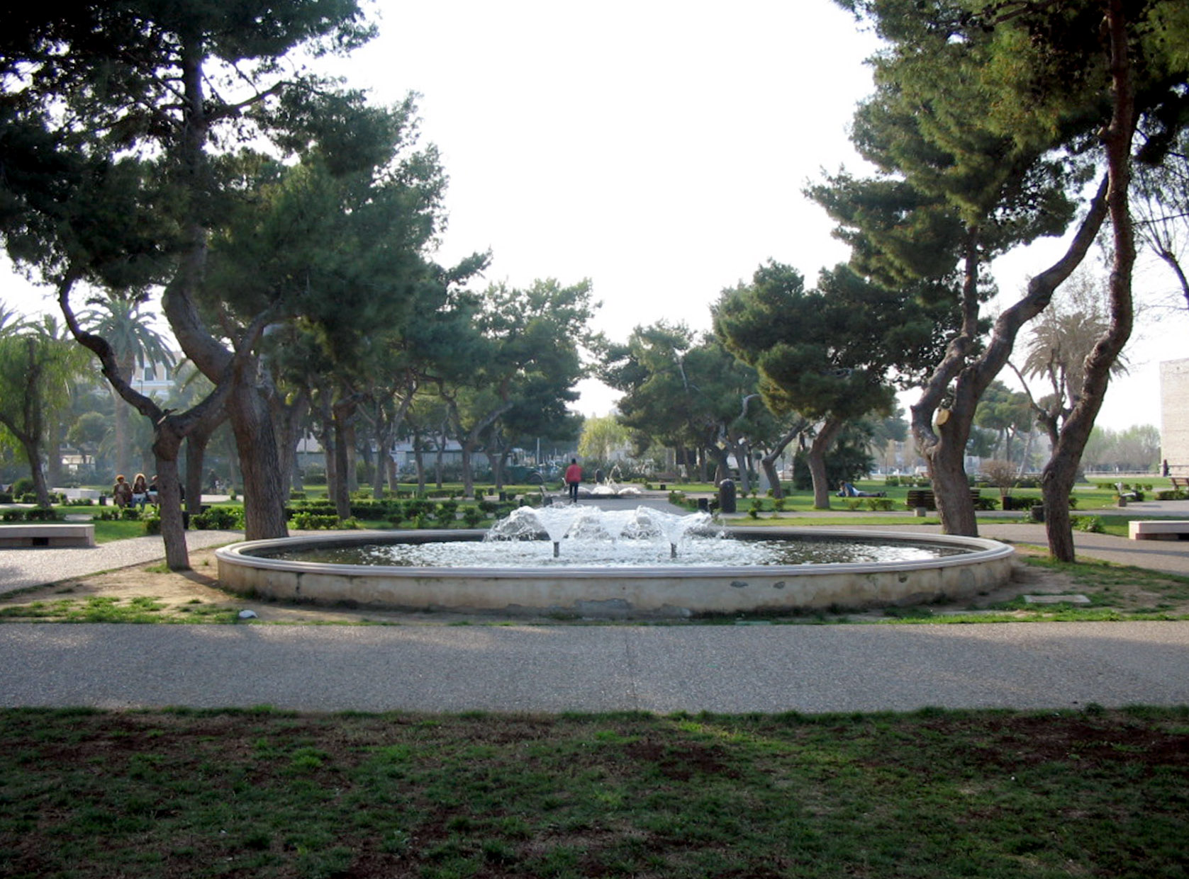 View of the castle park